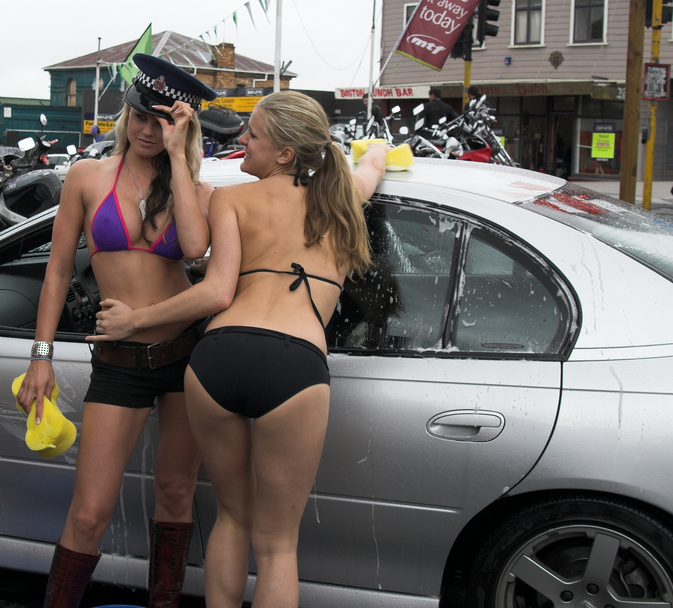 Bikini car wash. From Auckland, New Zealand.